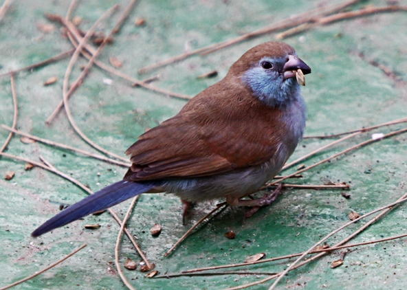 A female Red-cheeked Cordon-bleu in The Gambia.